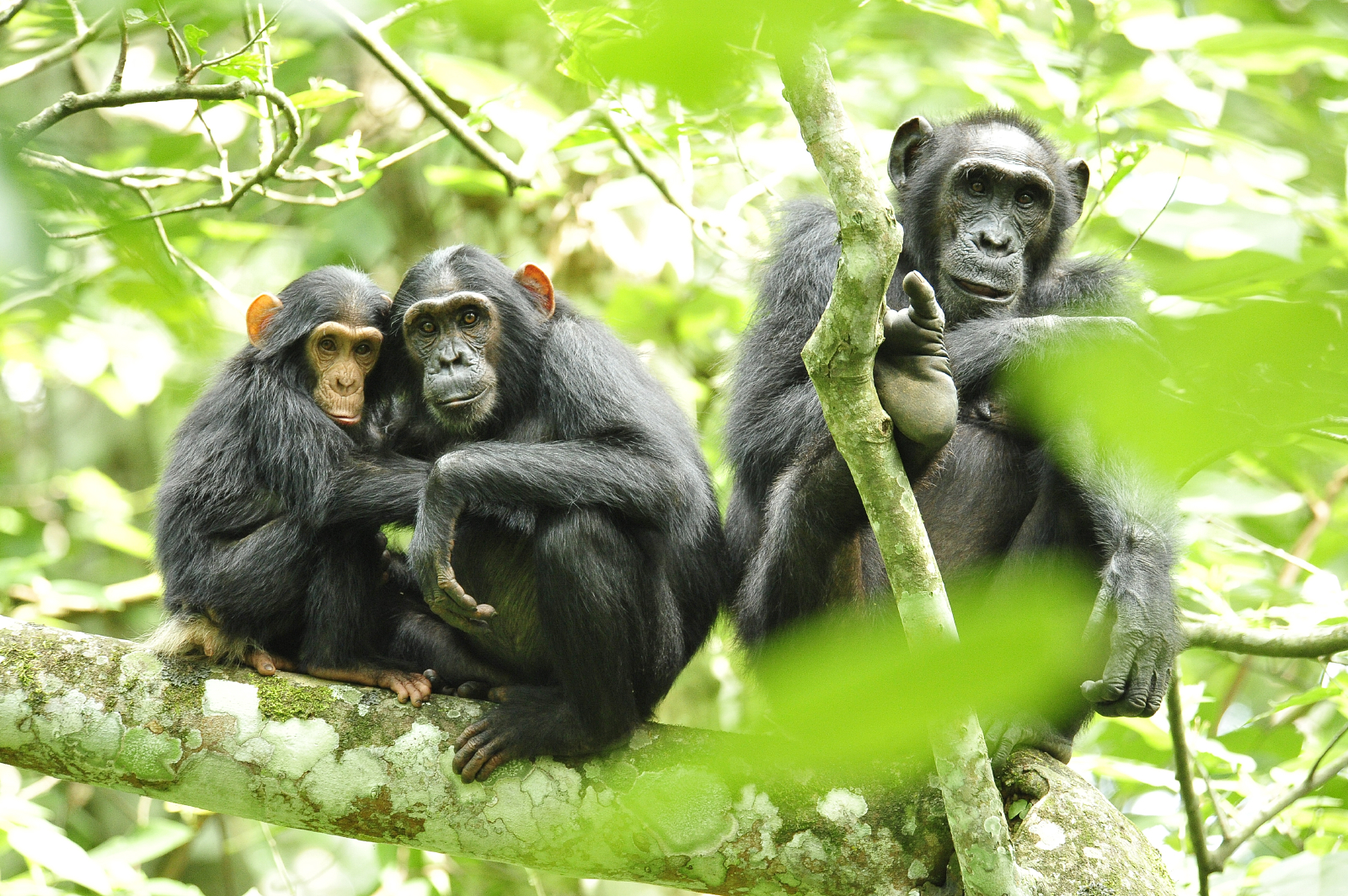 Uganda boasts an extraordinary diversity of habitats, scenery, and wildlife species. The string of protected areas along Uganda's western border with the Democratic Republic of Congo, in the Albertine Rift, harbors half the world's mountain gorillas, huge populations of hippos, as well as elephants, chimpanzees, lions, and much more. Because this wildlife is losing ground, USAID and the Wildlife Conservation Society aim to investigate the effects of climate change and habitat destruction on the survival of these species. (Julie Larsen Maher/ Wildlife Conservation Society)